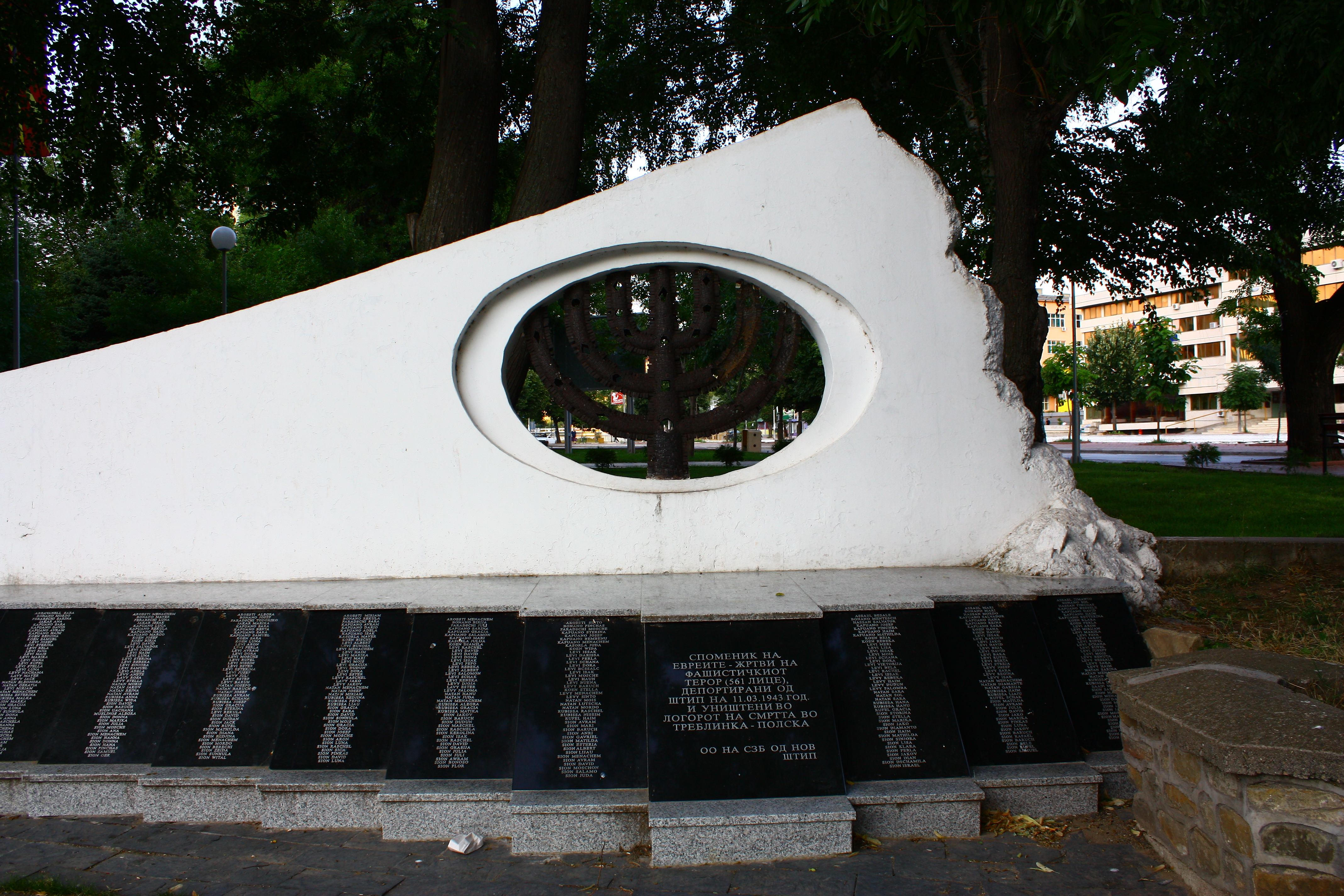 Monument of deported Jews in Štip, Macedonia.